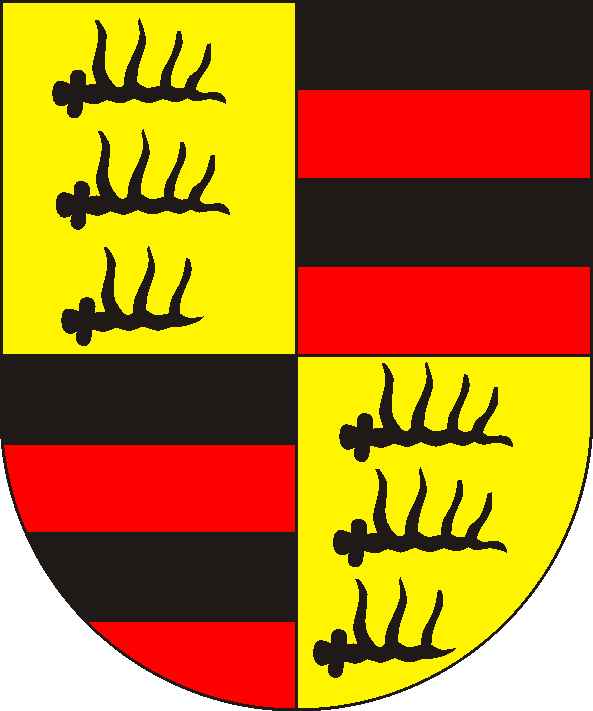 coats of arms of the state of Württemberg-Hohenzollern (1945-1952) 1,4: Württemberg (duchy); 2,3: colours of Württemberg